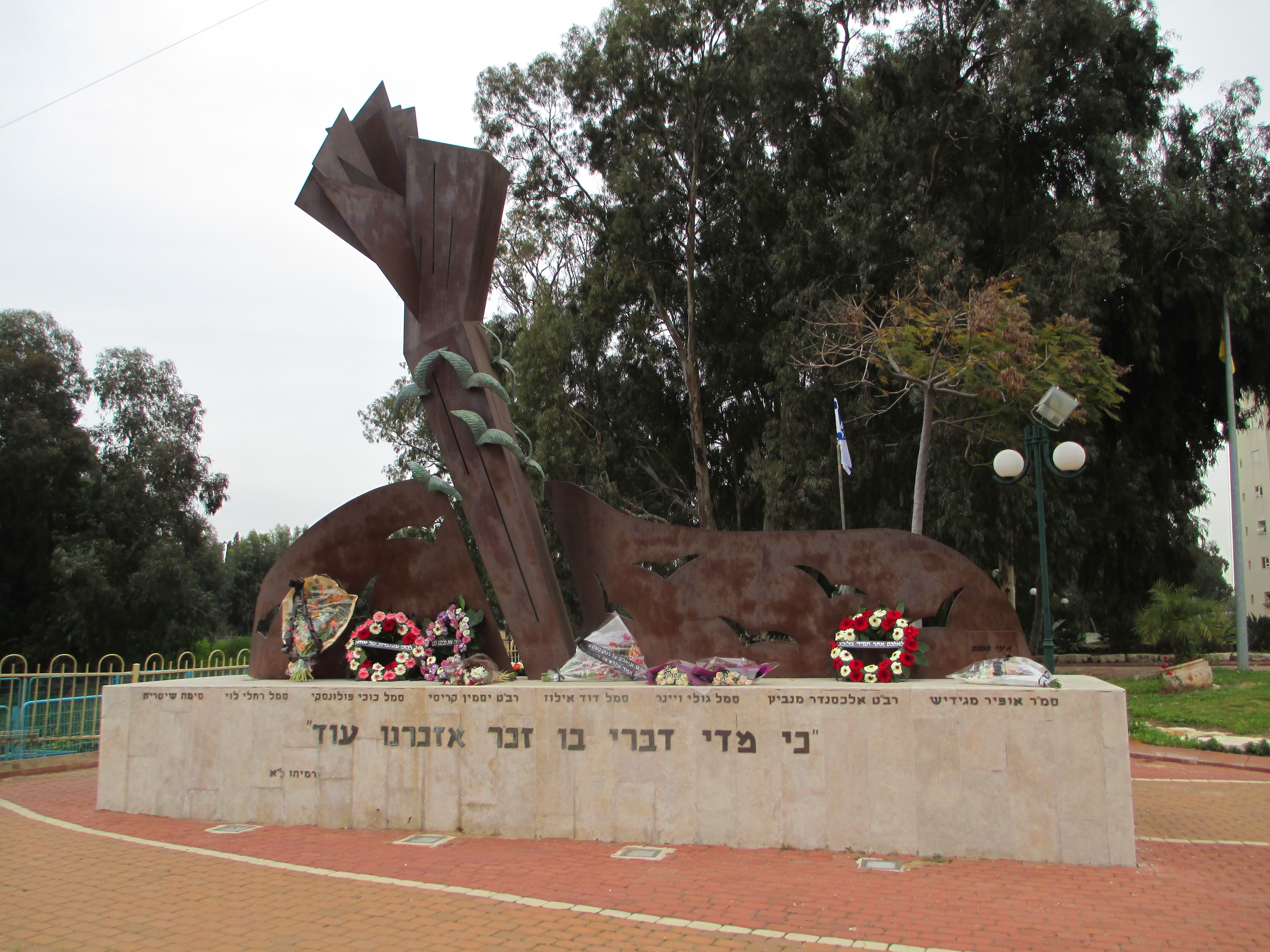 Memorial to the terror victims in Azor